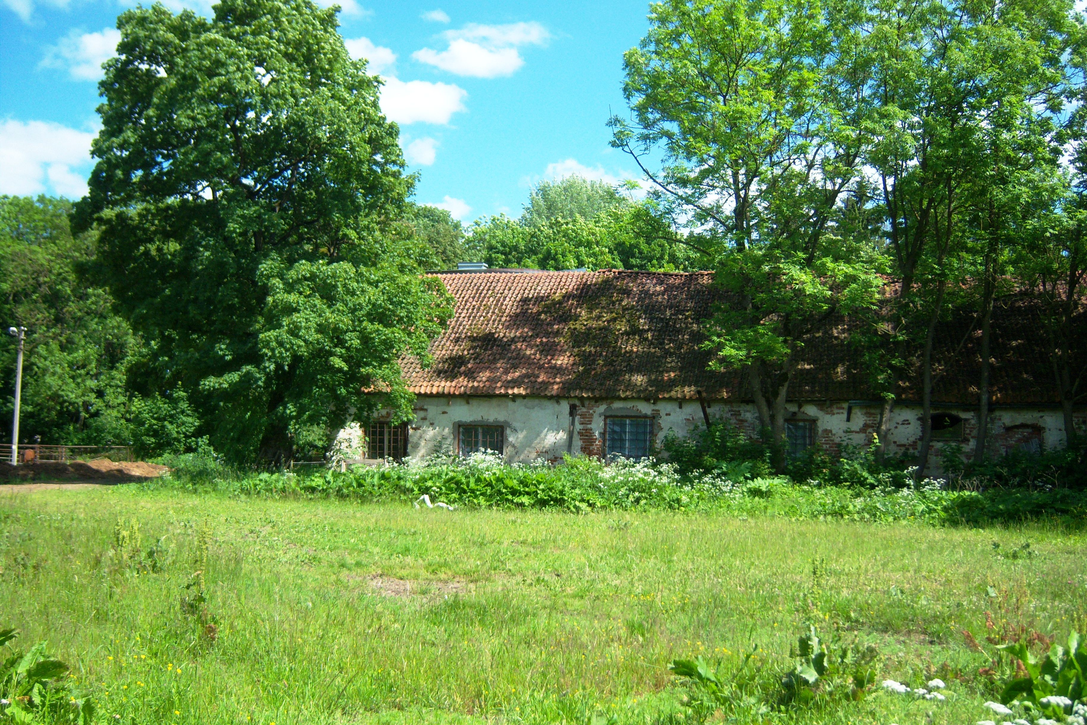 Building of stable in the former manor in Marvelė, Kaunas. Lithuania